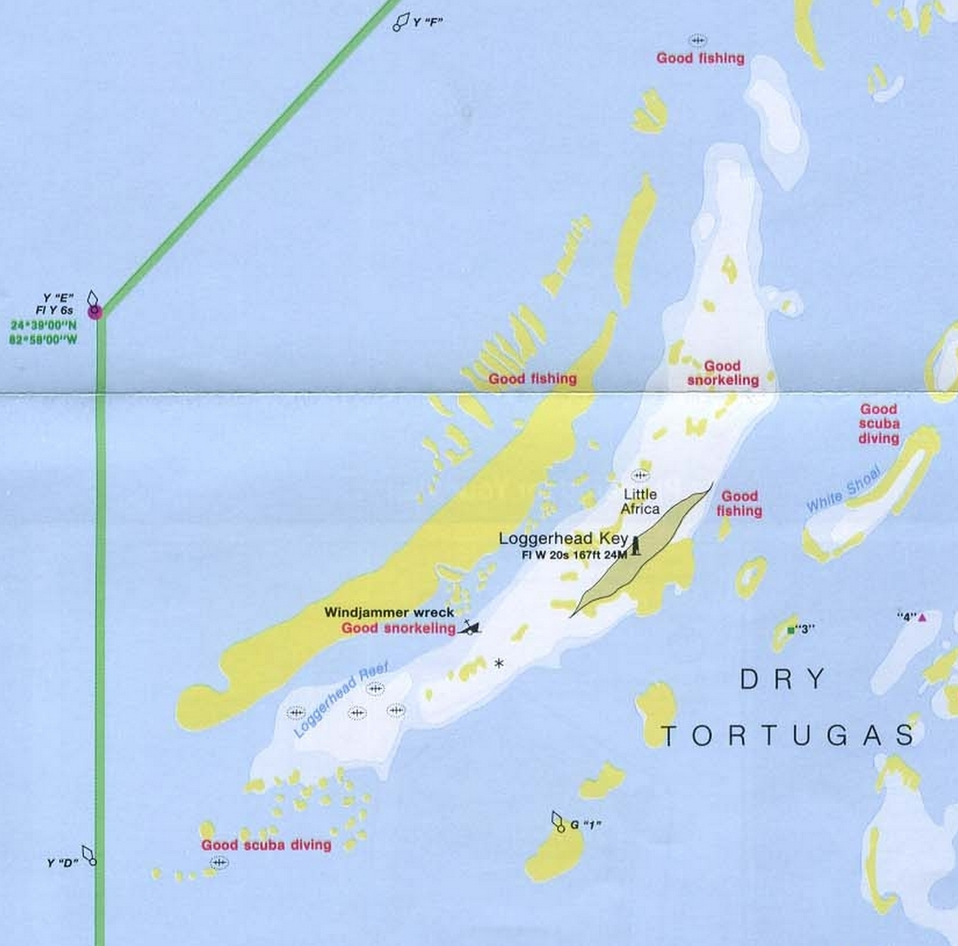 Loggerhead Key map